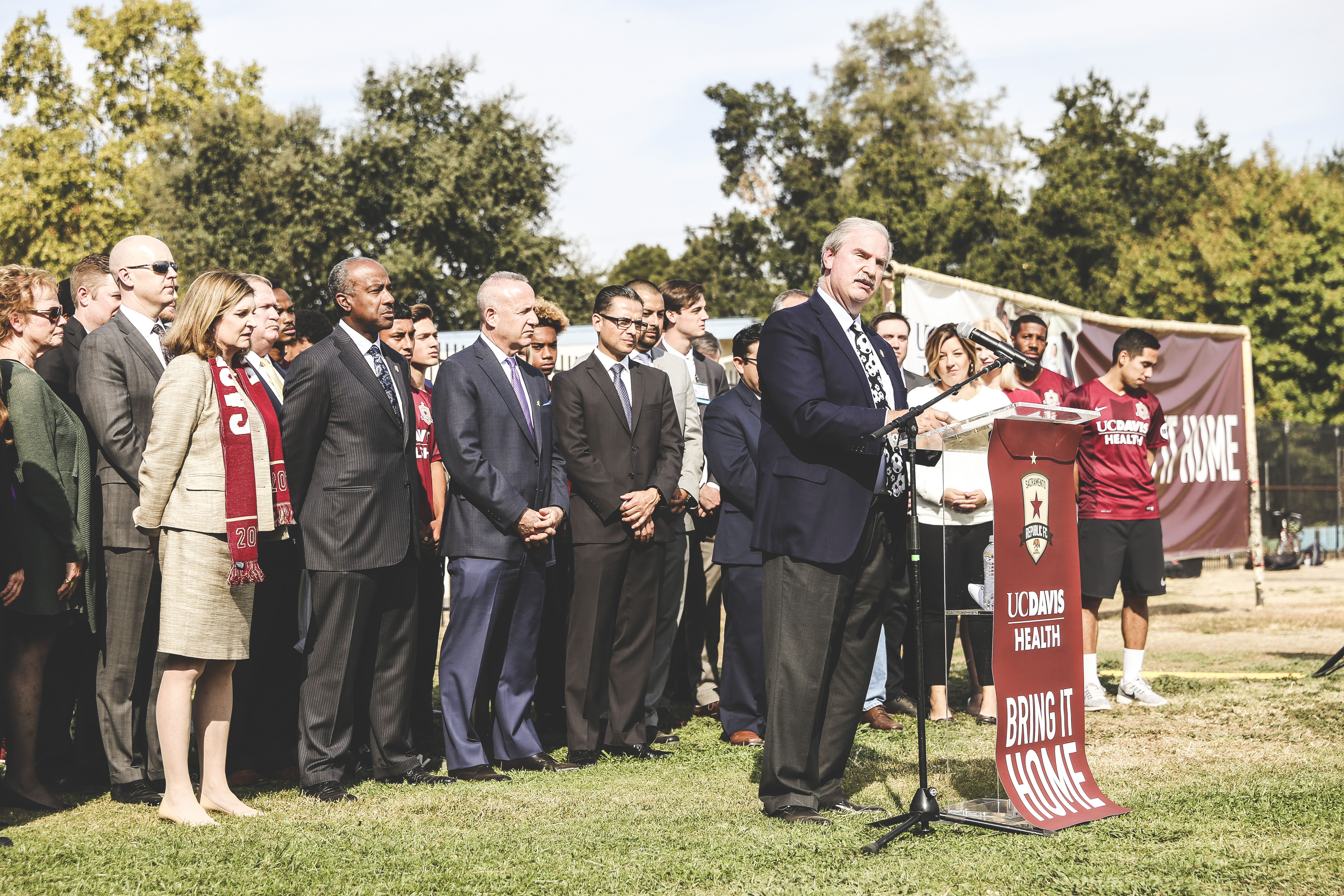 Nagle before civic and business leaders in Sacramento promoting the "Bring It Home" campaign for a Major League Soccer expansion bid